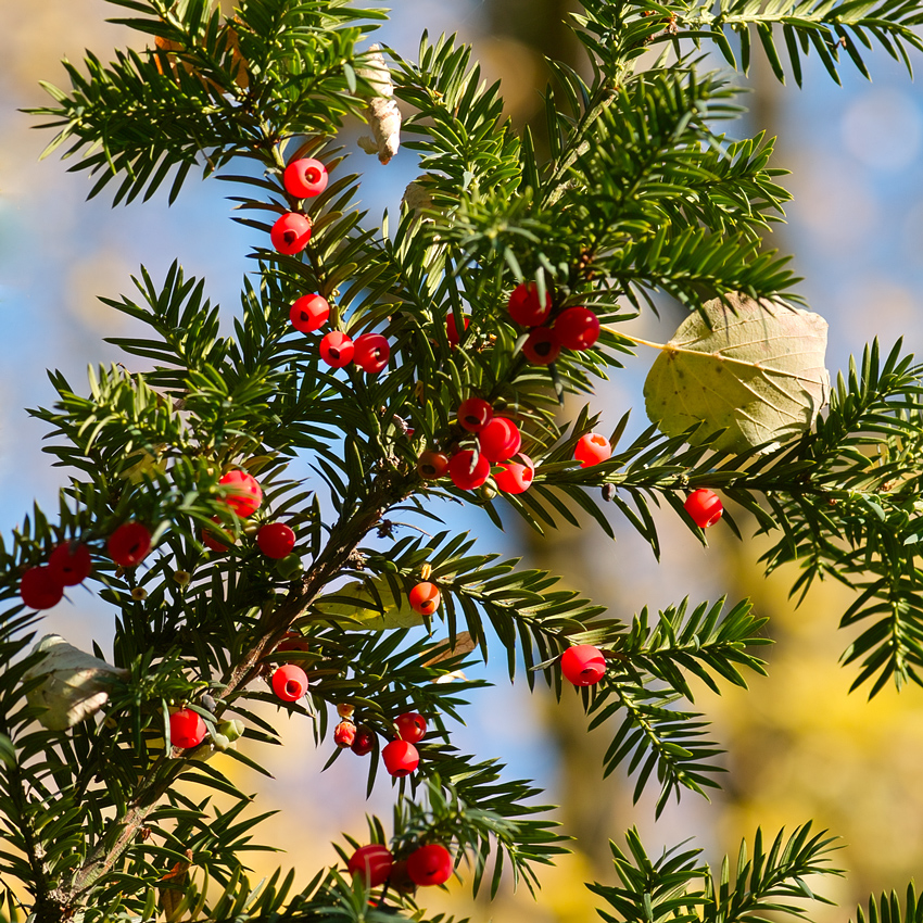 Yew-spray (Taxus baccata)